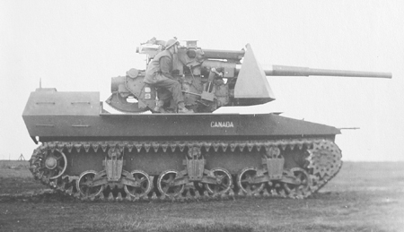 The 3.7 inch Ram being tested in England